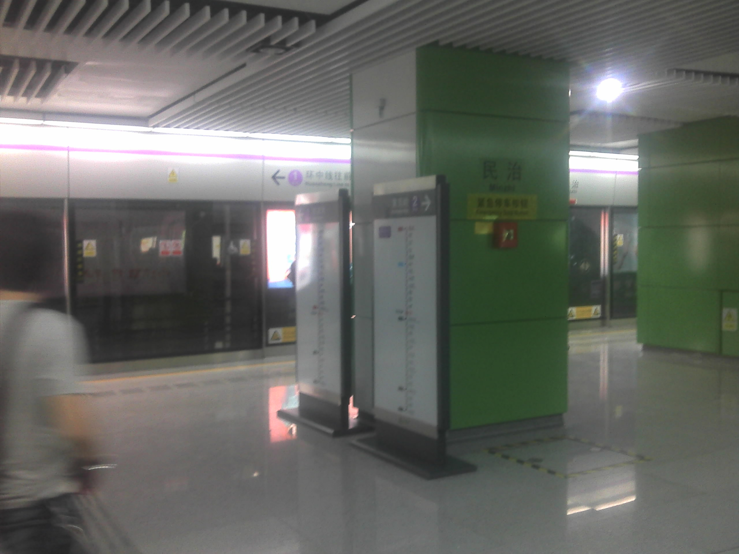 This photo was taken as Nov 19, 2011.